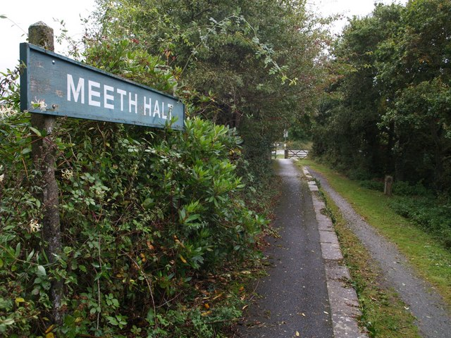 Meeth Halt (disused), near to Meeth, Devon, Great Britain. The North Devon and Cornwall Junction Light Railway ( Link ) closed in 1965. This must always have been a tiny station. It now serves as a starting point for a cyclepath along the former line as a branch of the Tarka Trail.